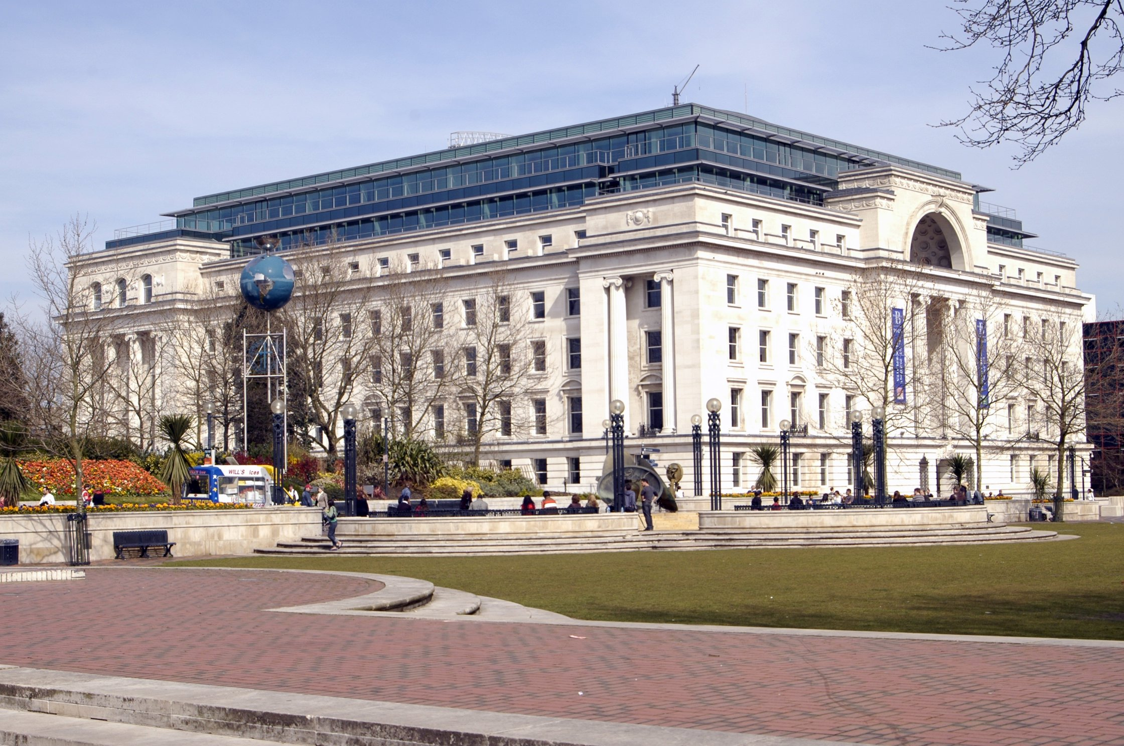 This is Baskerville House following a recent refurbishment into office from Broad Street in Birmingham, England.